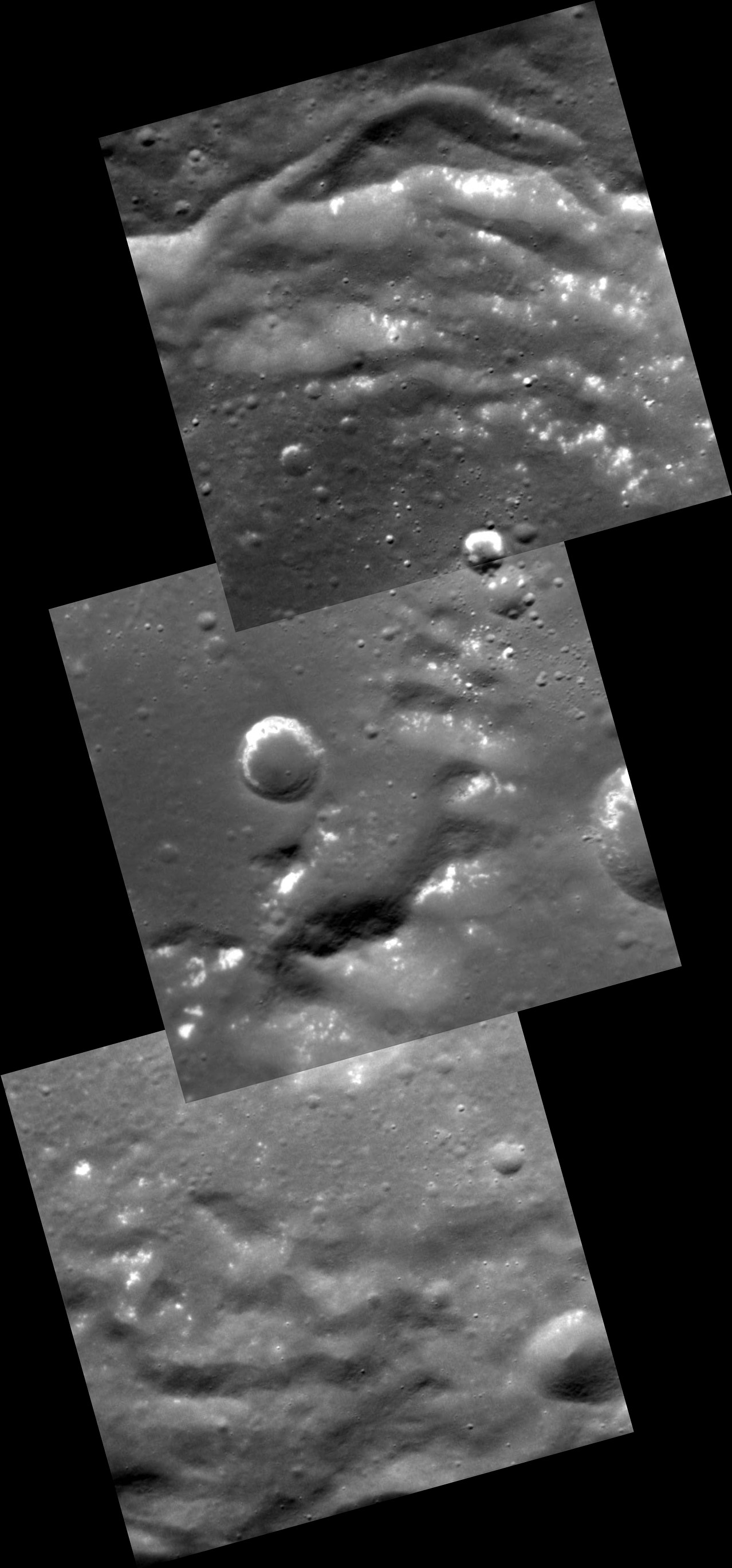 Boznańska crater interior, on Mercruy. Mosaic of three MESSENGER Narrow Angle Camera images (EN0226033257M, EN0226033266M, EN0226033275M). North is up. Statistics for center image are: Emission Angle: 17.8 Incidence Angle: 60.6 Latitude: 59.7 Longitude: 319.4 Phase Angle: 42.8